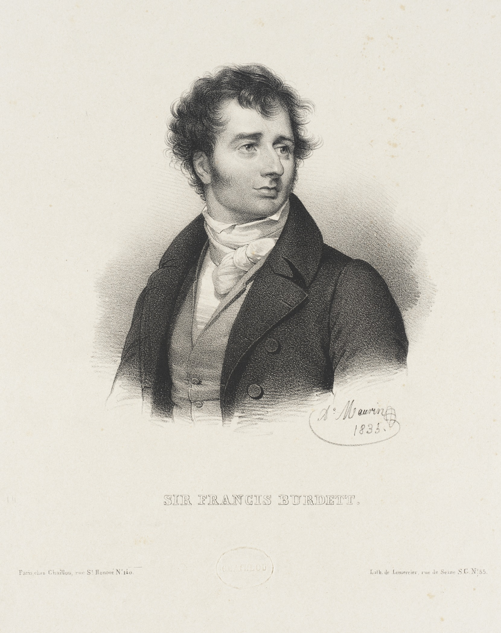 France, 1835 Prints; lithographs Lithograph Gift of Mrs. Irene Salinger in memory of her father, Adolph Stern (54.89.138) Prints and Drawings